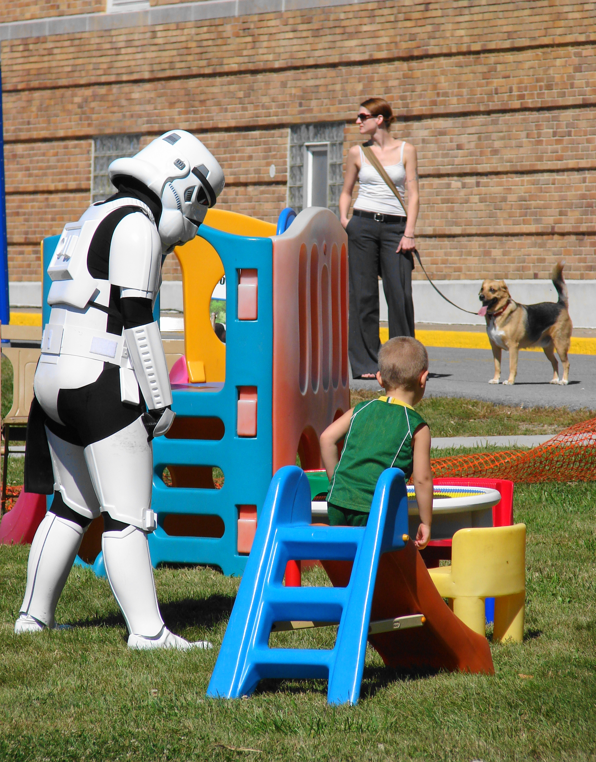 This one made it to Explore.